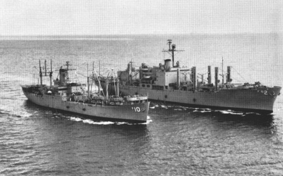 The U.S. Navy stores ship USS Aldebaran (AF-10) underway with the combat stores ship USS Sylvania (AFS-2). Sylvania had been commissioned on 11 July 1964.